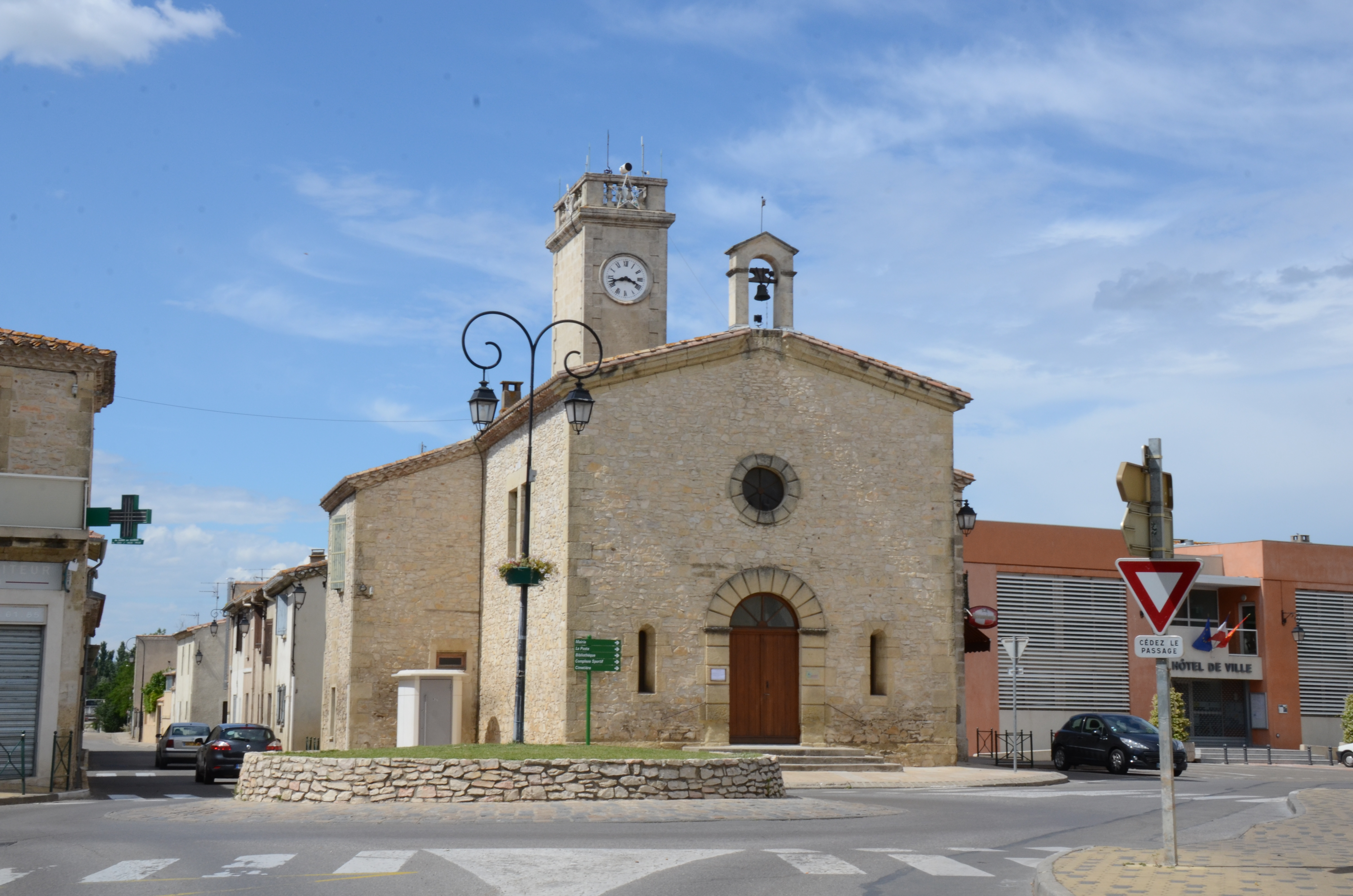 Church of Aubord Gard France